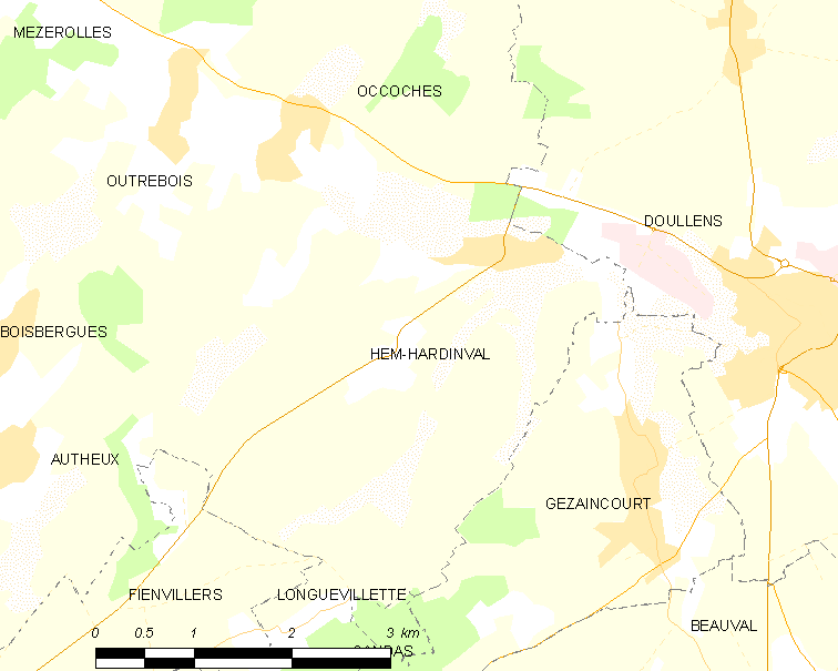 Map of French municipality Hem-Hardinval